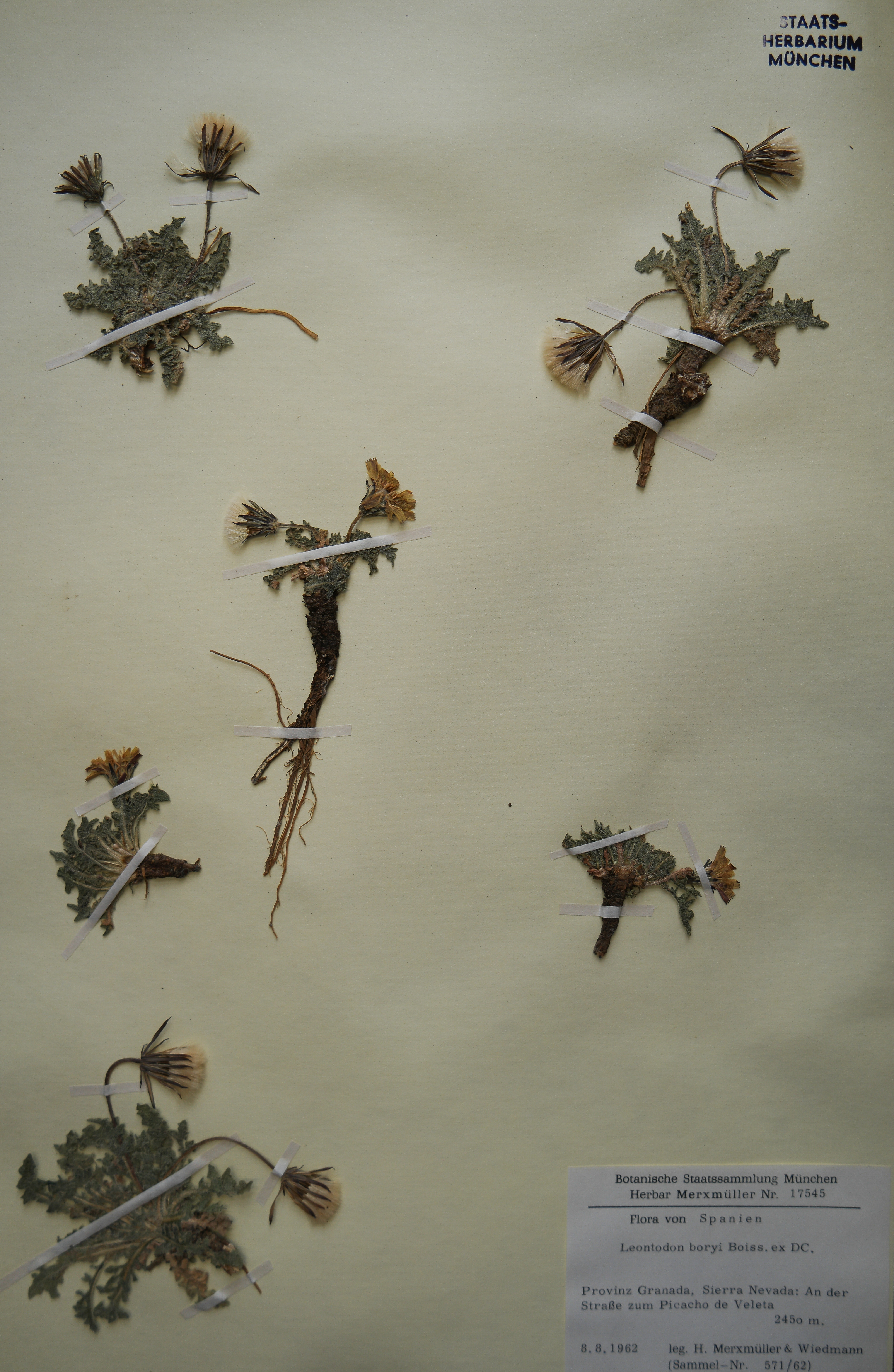 Leontodon boryi